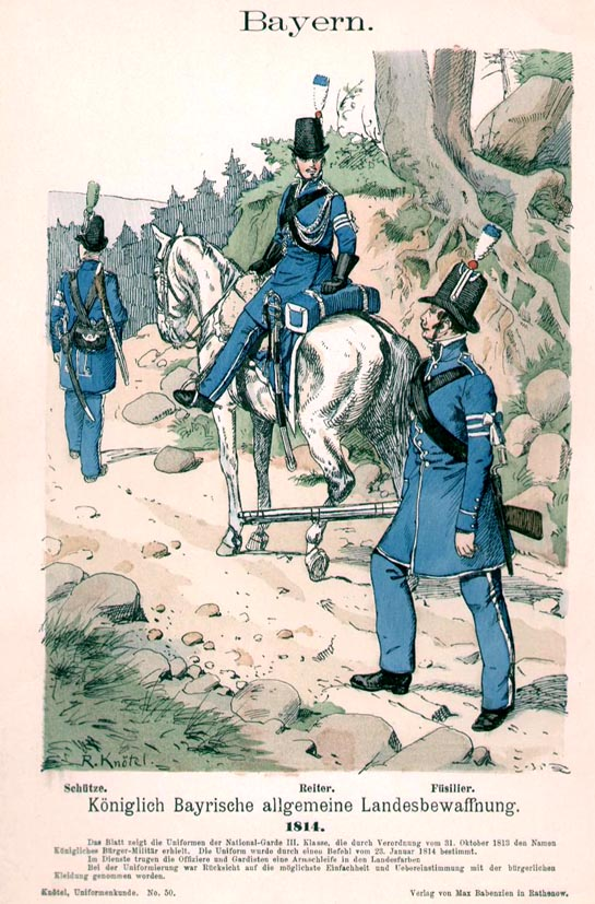 Bayern. Allgemeine Landesbewaffnung. 1814